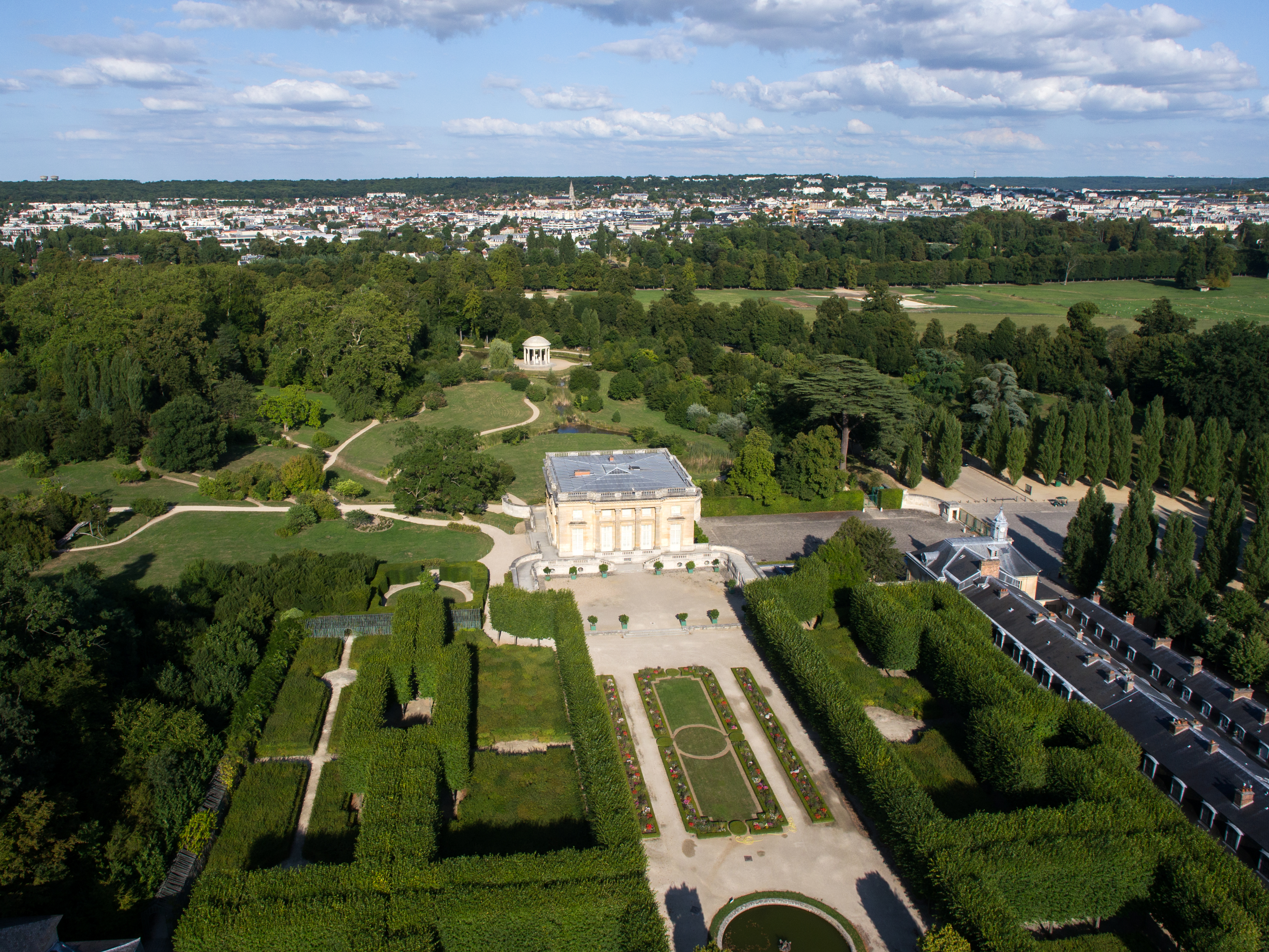 Aerial view of the Petit Trianon, Domain of Versailles, France